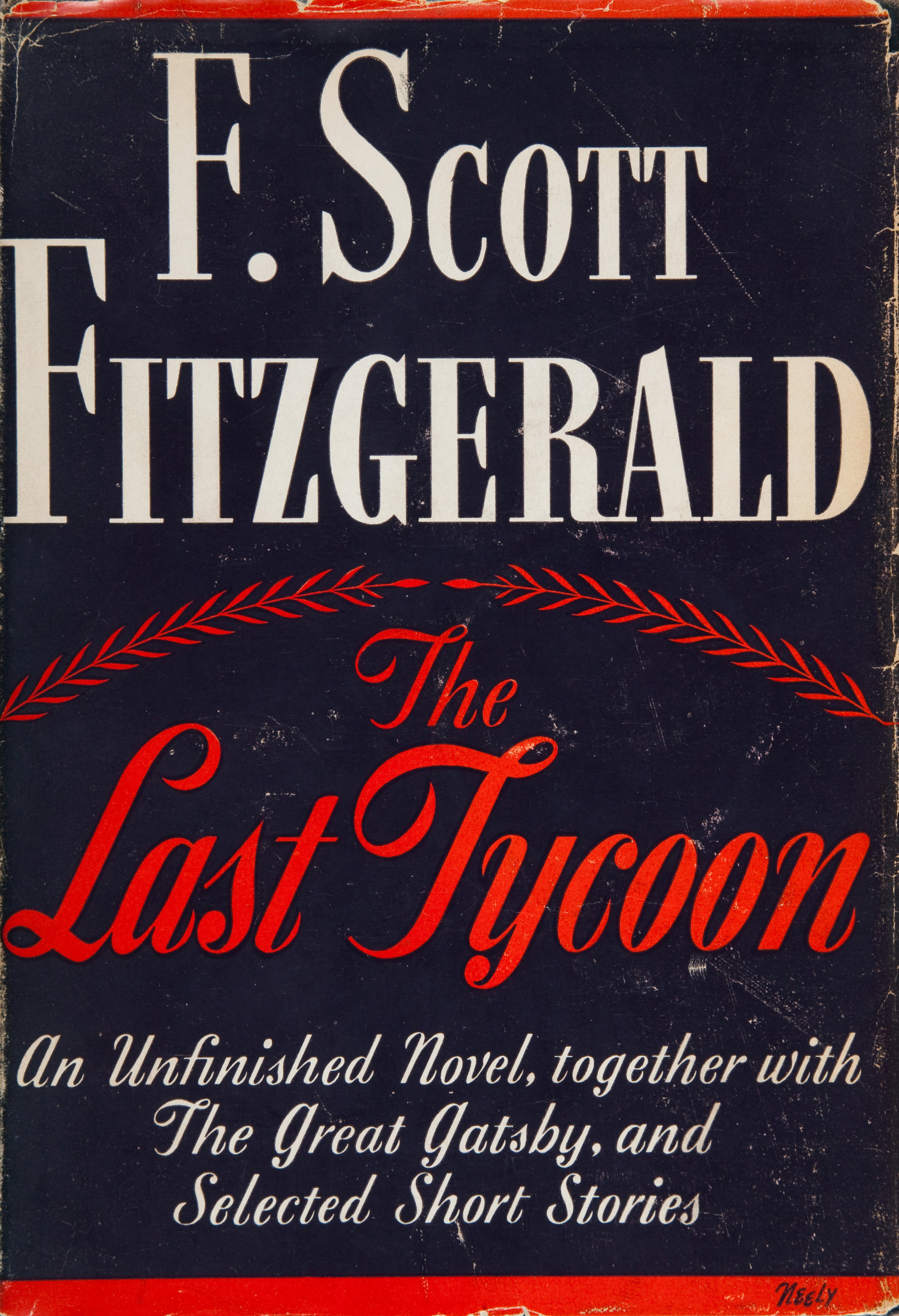 First-edition dust jacket cover of The Last Tycoon (1941), an unfinished, posthumously published novel by the American author F. Scott Fitzgerald (1896–1940).